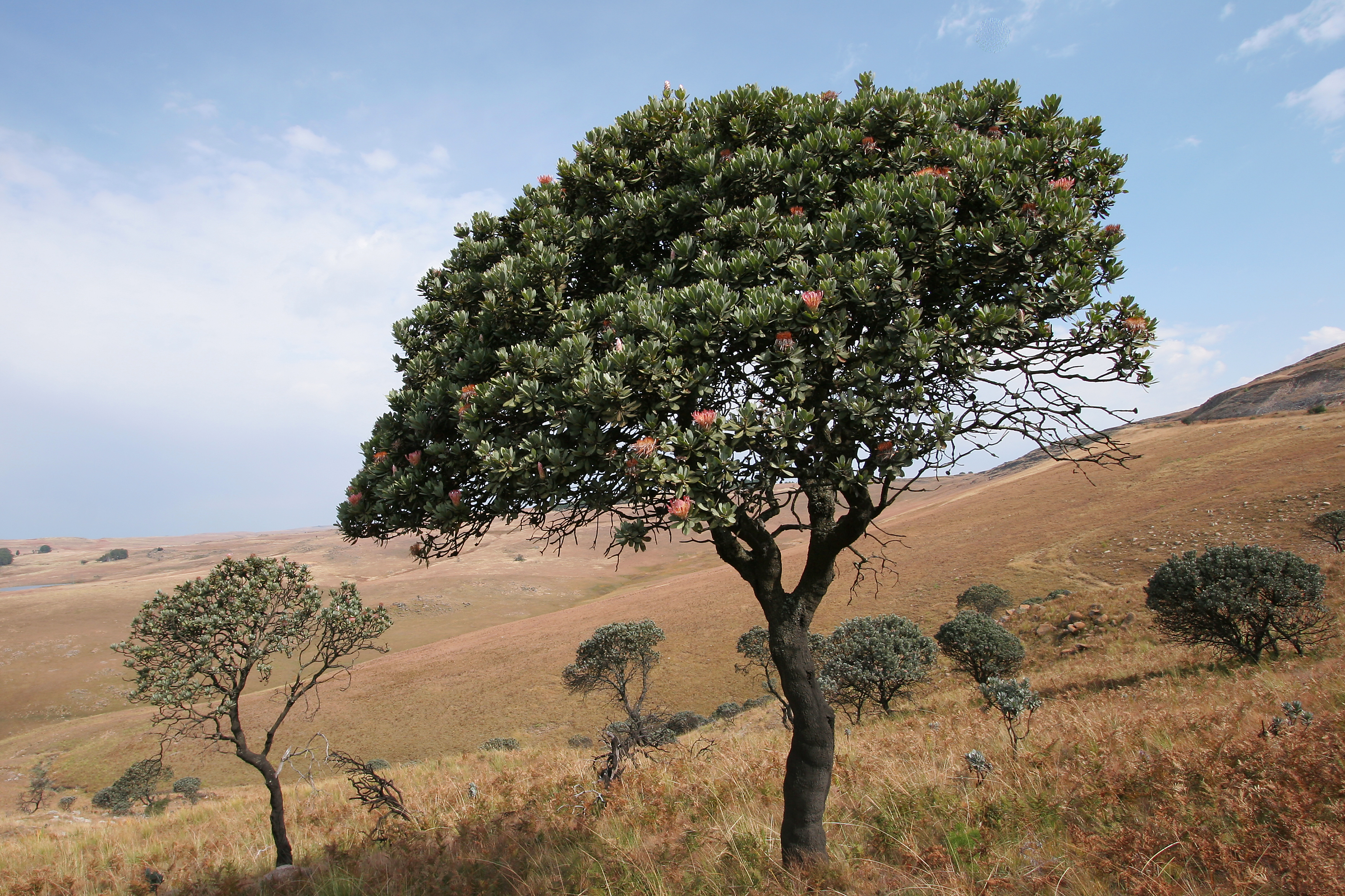 Protea roupelliae subsp. roupelliae, trees; Steenkampsberg Pass, R577 between Roossenekal and Lydenburg, Mpumalanga, South Africa